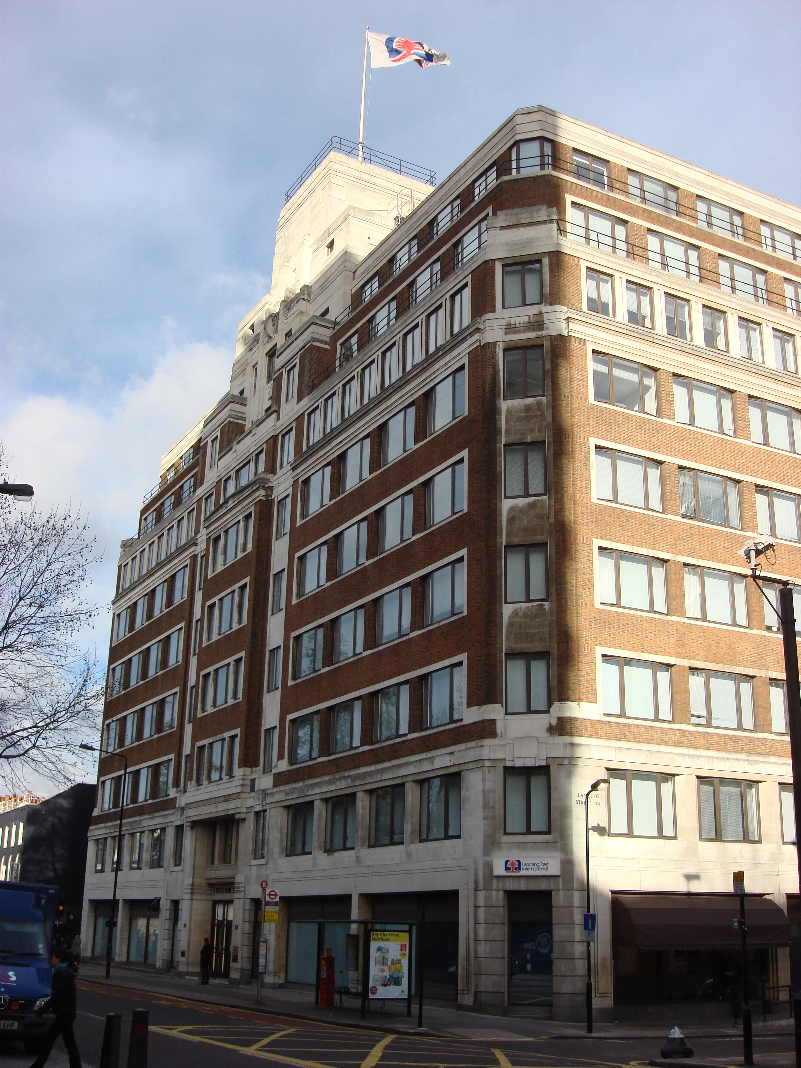 Euston House, Eversholt Street, NW1 Hurst Peirce & Malcolm were engineer for Euston House built by London Midland and Scottish Railways in the 1930s. It was ‘fast track’ construction of its time with just 11 months elapsing between site possession and occupation during which time 150,000 square feet of office was constructed and fitted out. Euston House was the headquaters of the LMS until nationalisation in 1948. the building was then HQ of British Rail until privatisation in stages from 1994 to 1997